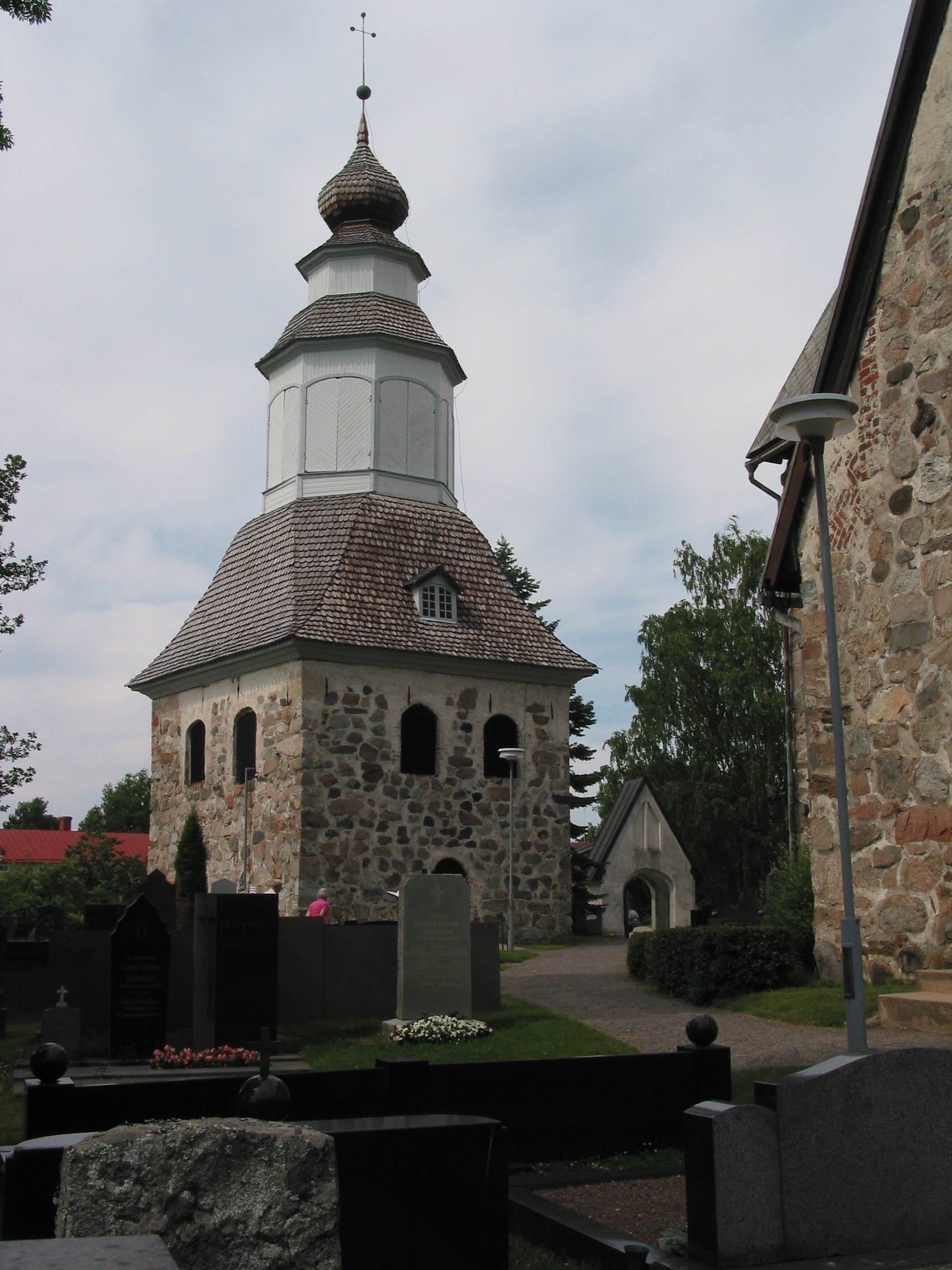 Sauvo Church, 15th century, Sauvo, Finland